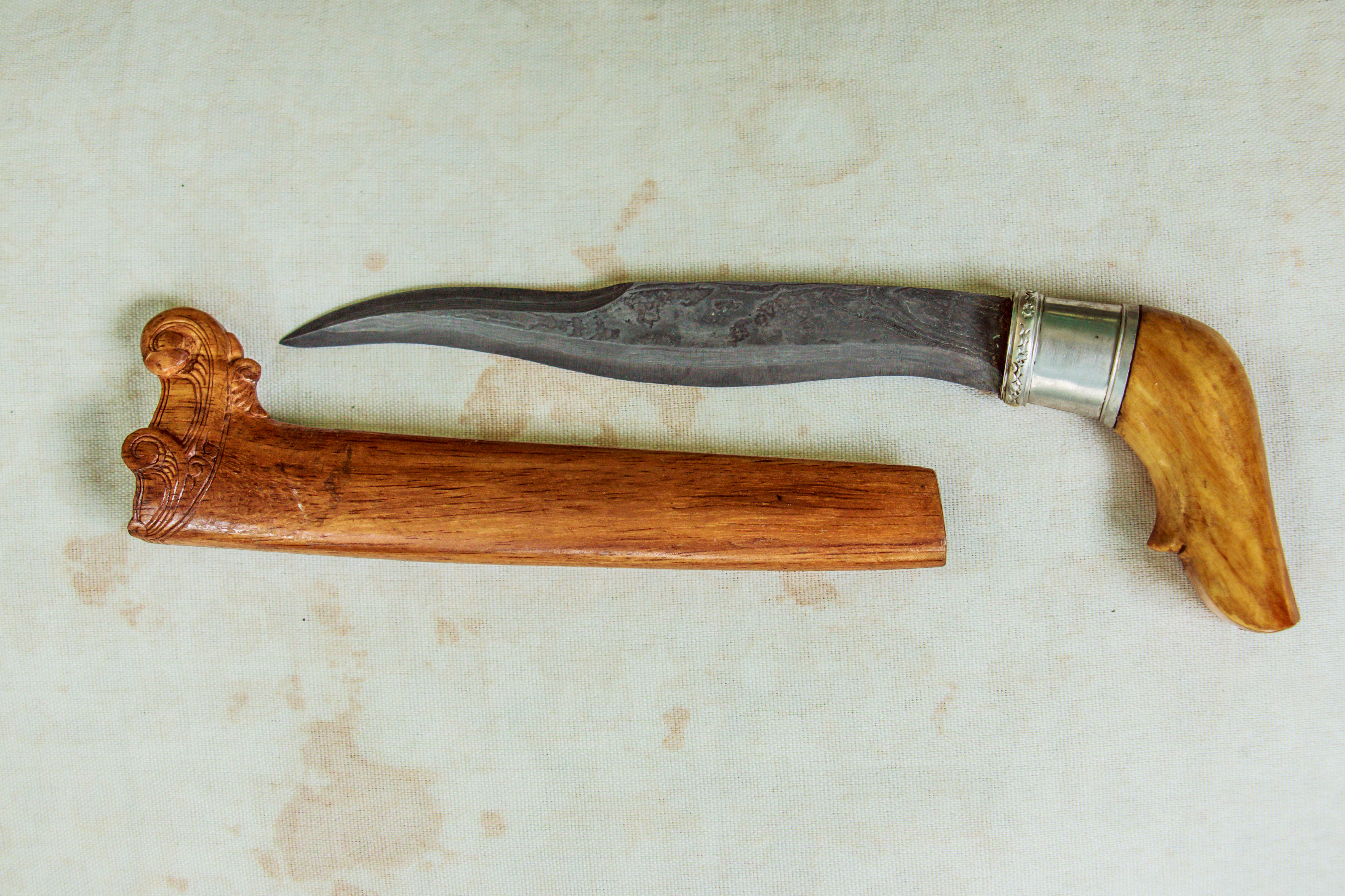 Buginese weapon art , Uladeedu